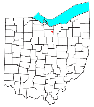 Locator map of the unincorporated community of Clarksfield in Huron County, Ohio, United States.